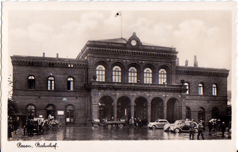 Postcard, from 1940s showing the main building of a Poznań railway station during german-nazi occupation (Publisher: Kunsthandlung des Ostens L.Denecke, Posen).